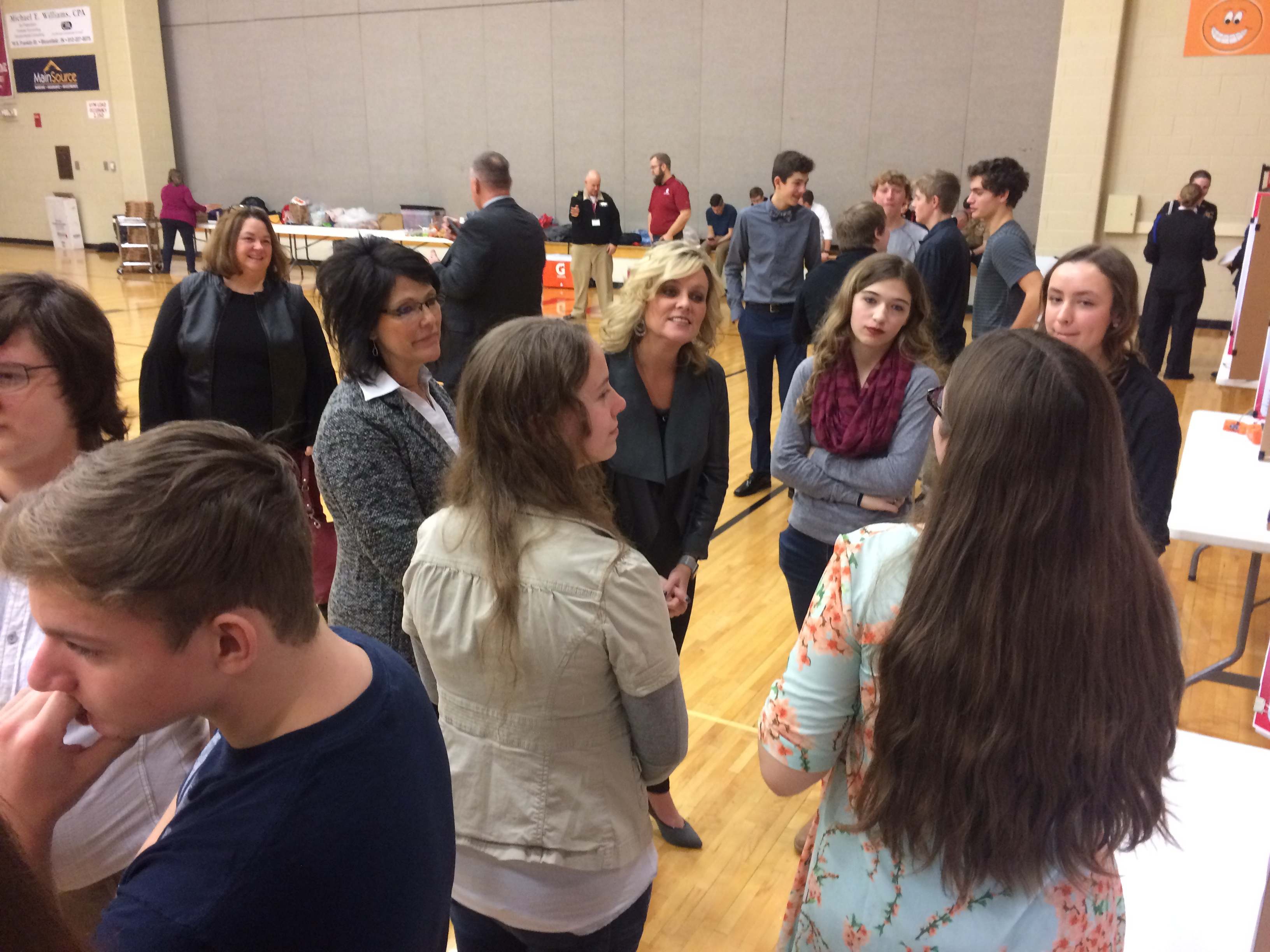 CRANE - CRANE, Ind. – On Jan. 26, Bloomfield students had the opportunity to present to teachers, Naval Surface Warfare Center, Crane Division (NSWC Crane) volunteers, community partners and a special guest, Superintendent of Public Instruction Jennifer McCormick at Bloomfield High School during the final Workplace Simulation Project Day.